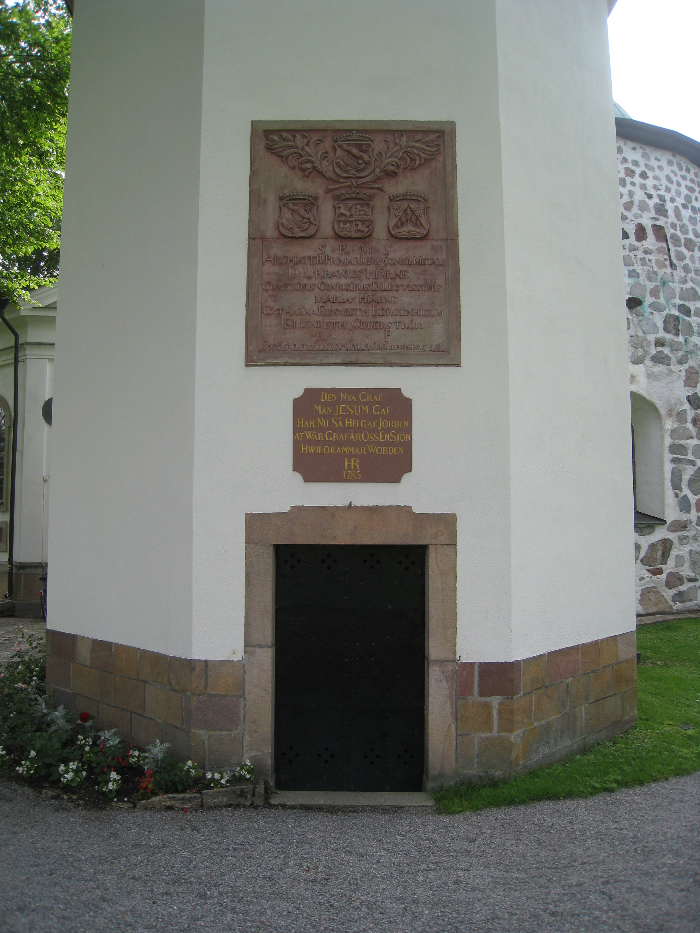 Bromma Church in Bromma Parish, Stockholm Municipality, Uppland. Picture of the burial chapel of the doctor and scientist Urban Hjärne (1641-1724). Above the doorway there is an iron memorial tablet for Urban Hjärne.